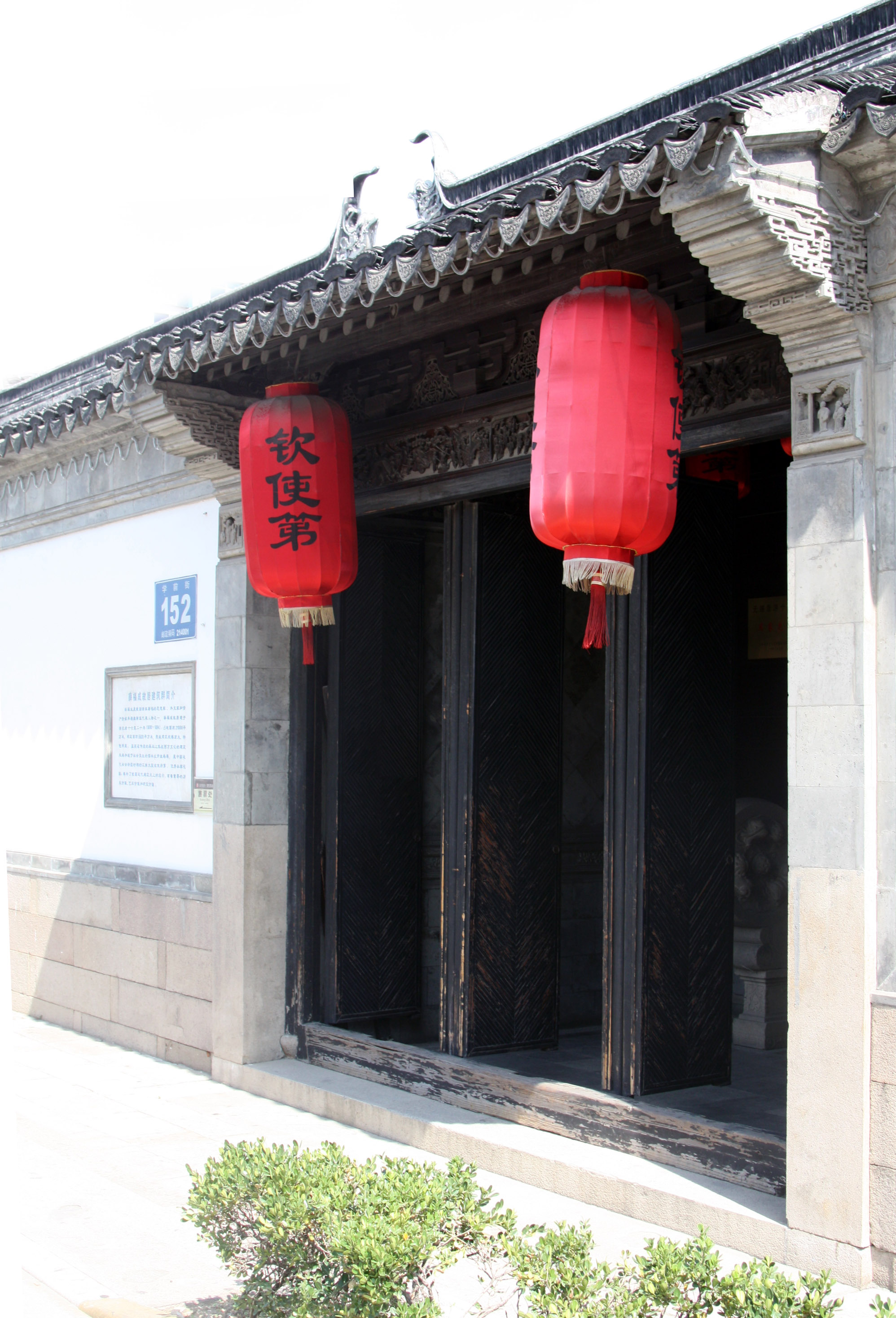 Xue Fucheng Residence in Wuxi